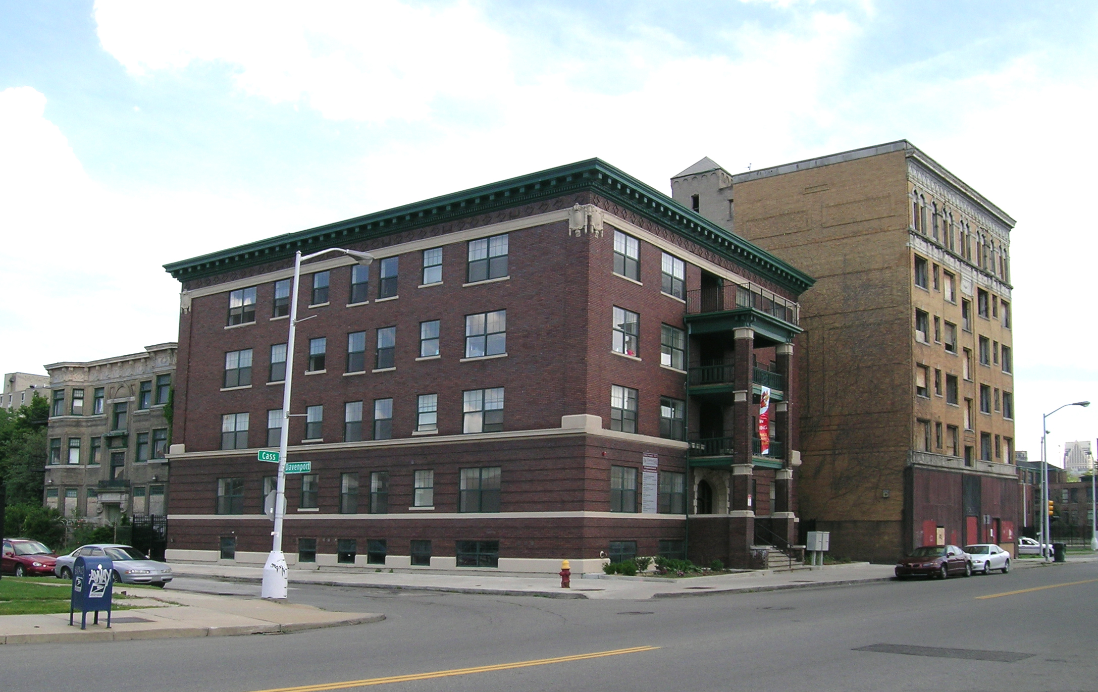 The Cass-Davenport Historic District in Detroit, Michigan, United States, is listed on the US National Register of Historic Places (NRHP). Pictured are the Davenport, Chesterfield, and Naomi apartment buildings. NRHP reference number 97001100